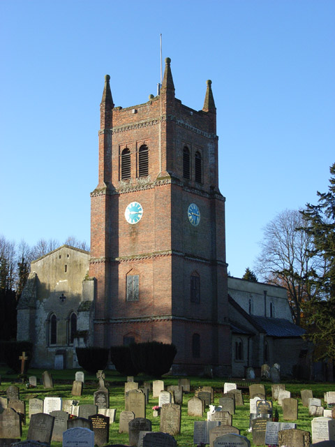 17th-century west tower of All Saints' parish church, Crondall, Hampshire, seen from the southwest